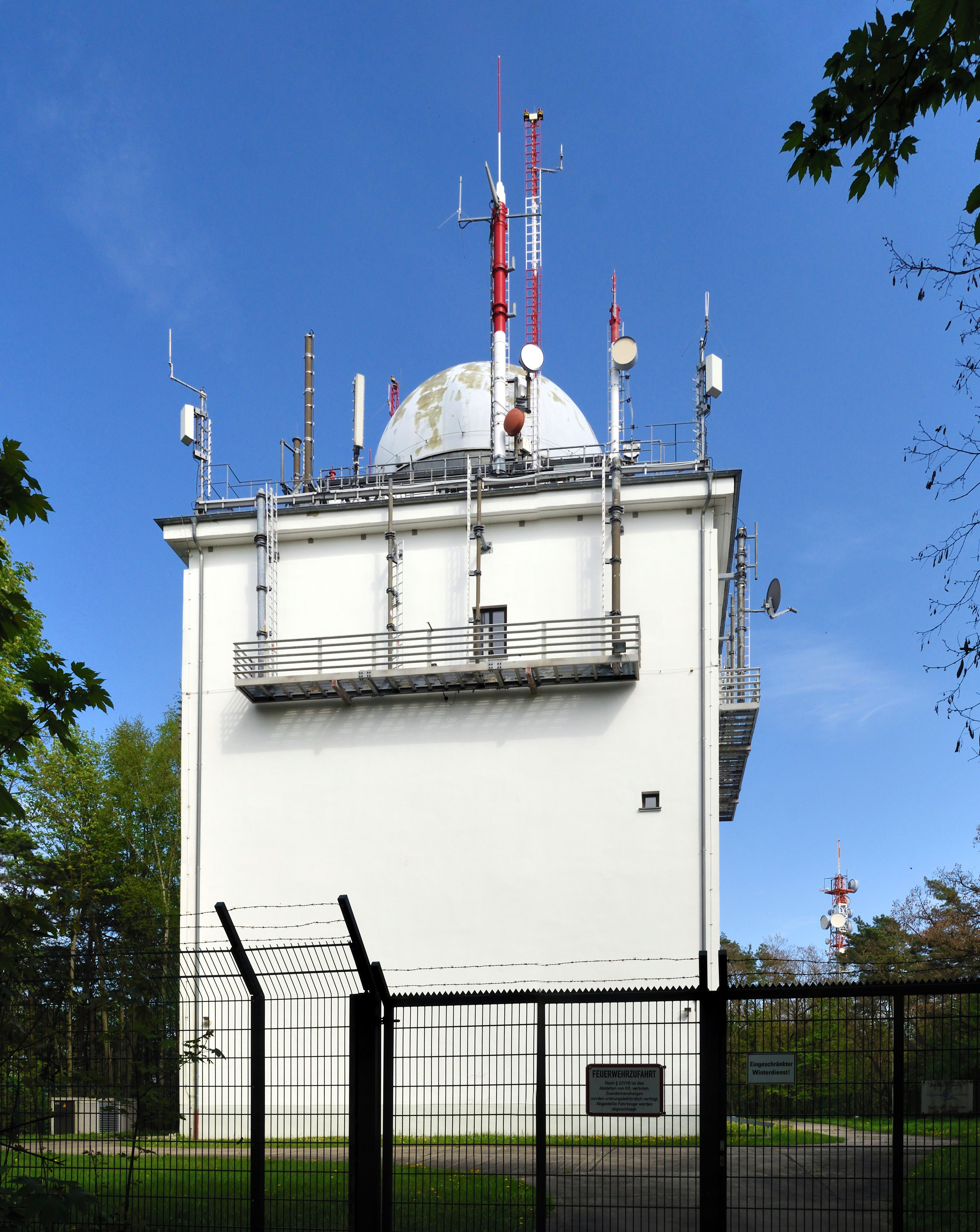 Former TV tower Müggelberg, Berlin